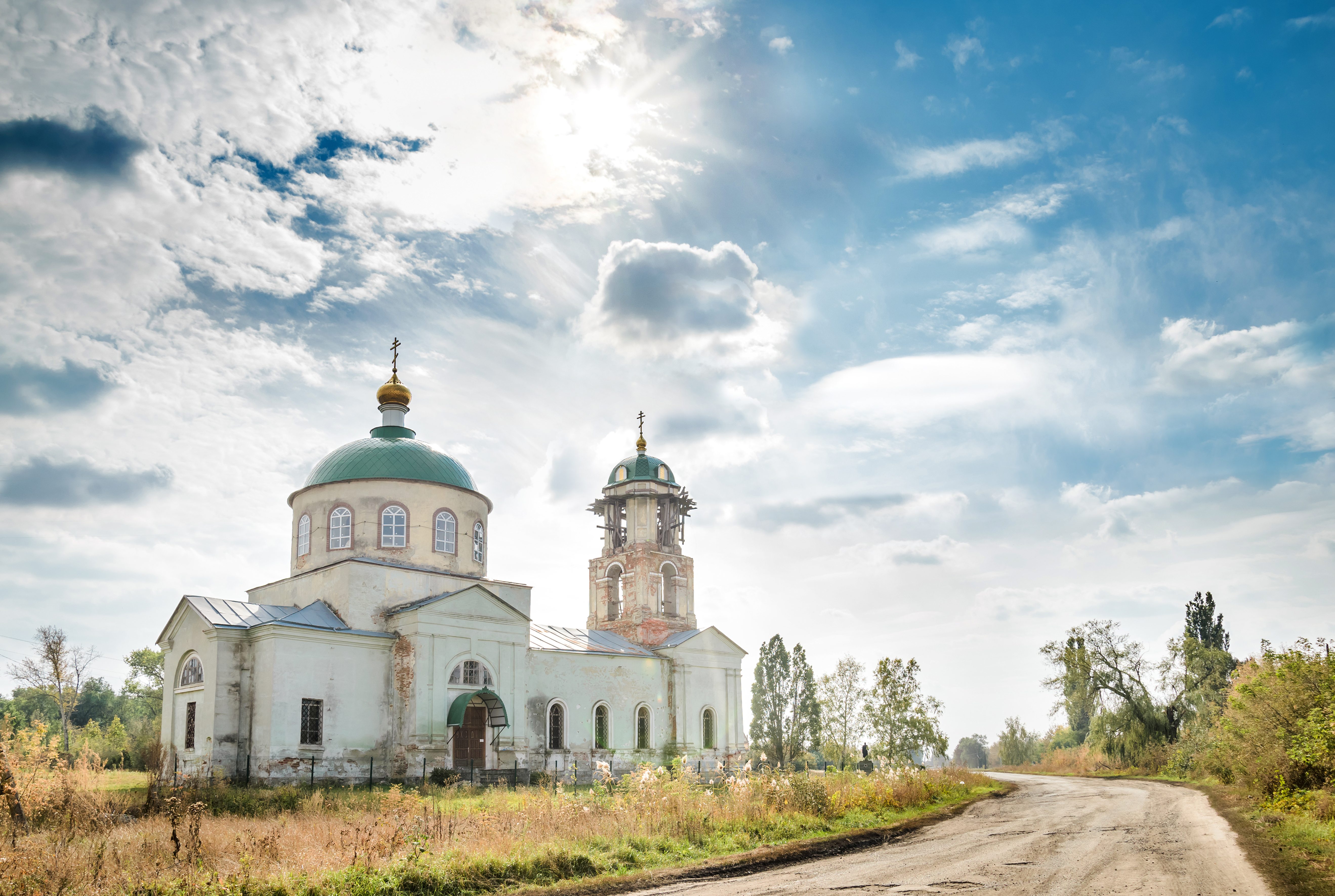 Saint Nicholas church, Tarasivka, Troitske Raion, Luhansk Oblast, Ukraine